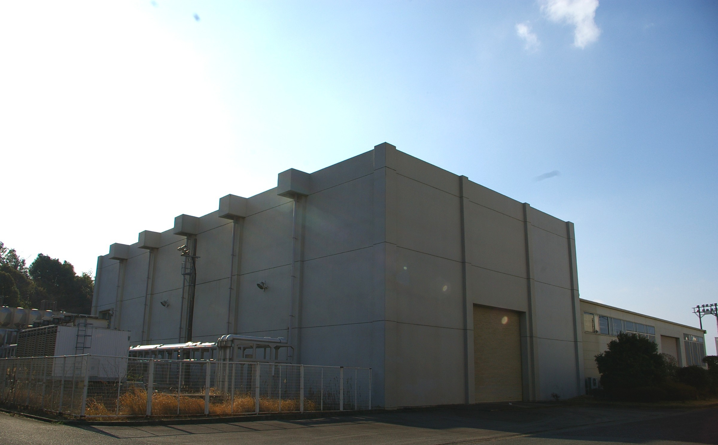 Fukuoka